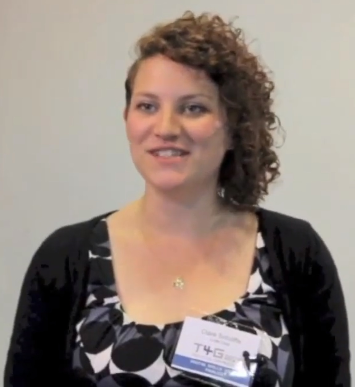 Code Club were winners of the Digital Skills Award at Technology4Good Awards - their Chief Officer Claire Sutcliffe talks about the Awards and the value that technology can have for people with disabilities.